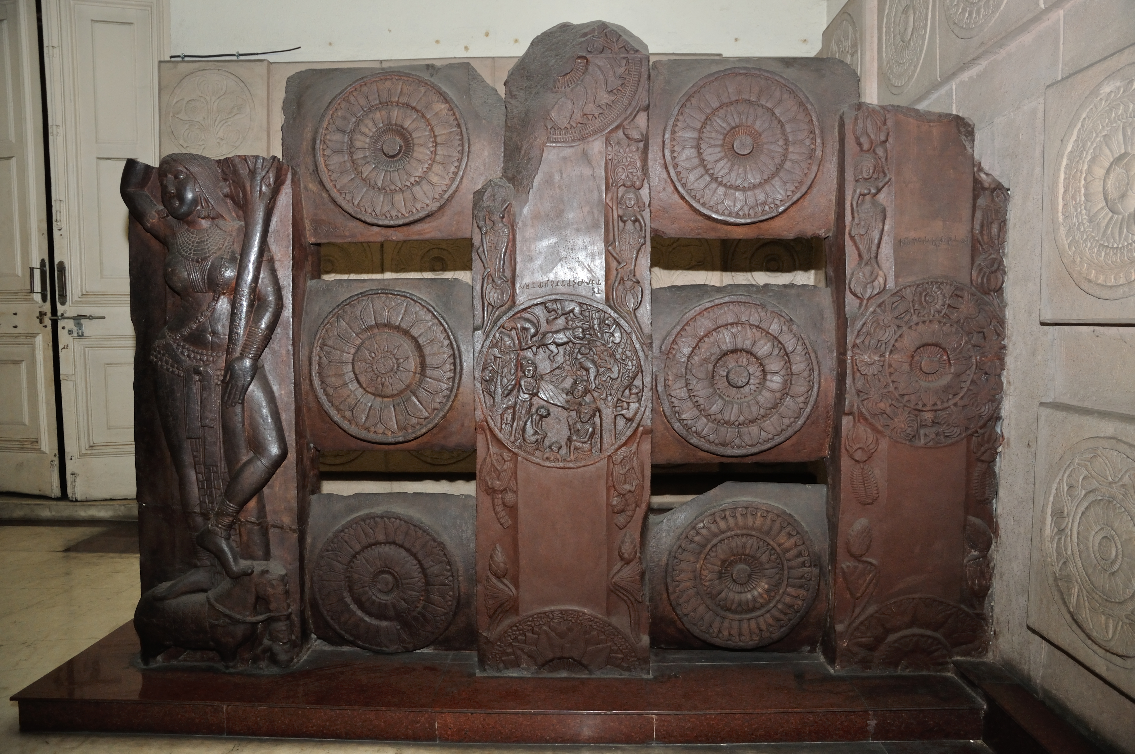 Photographed at the Bharhut Gallery of Indian Museum, Kolkata.